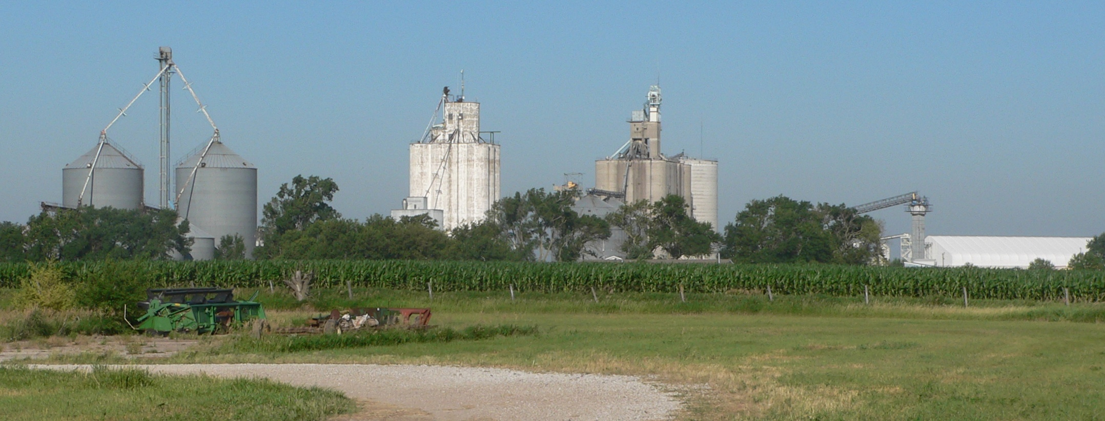 Tamora, Nebraska; seen from the northeast.